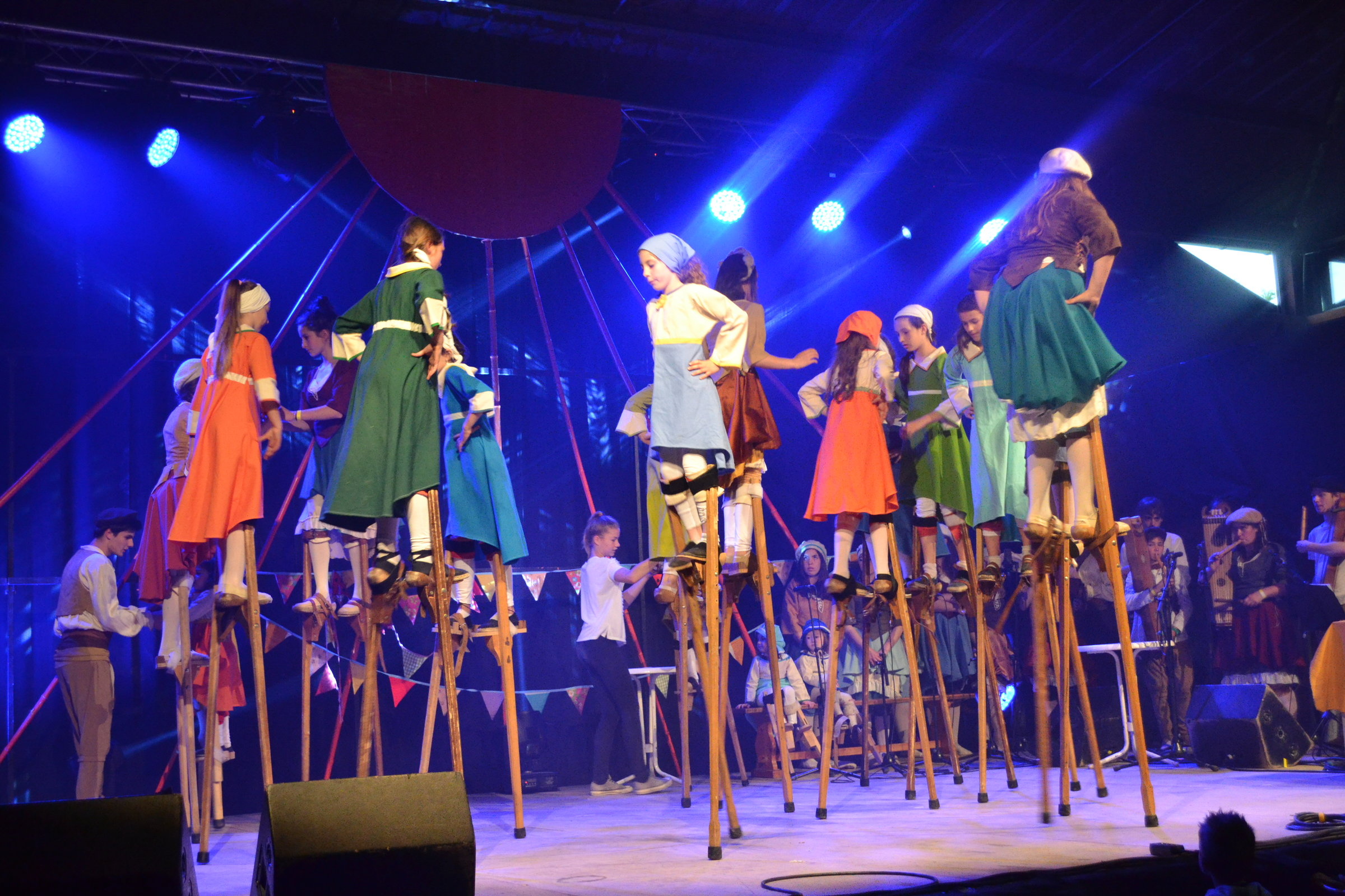 Los Chancaires during Primtemps de l'arribèra on 2015.